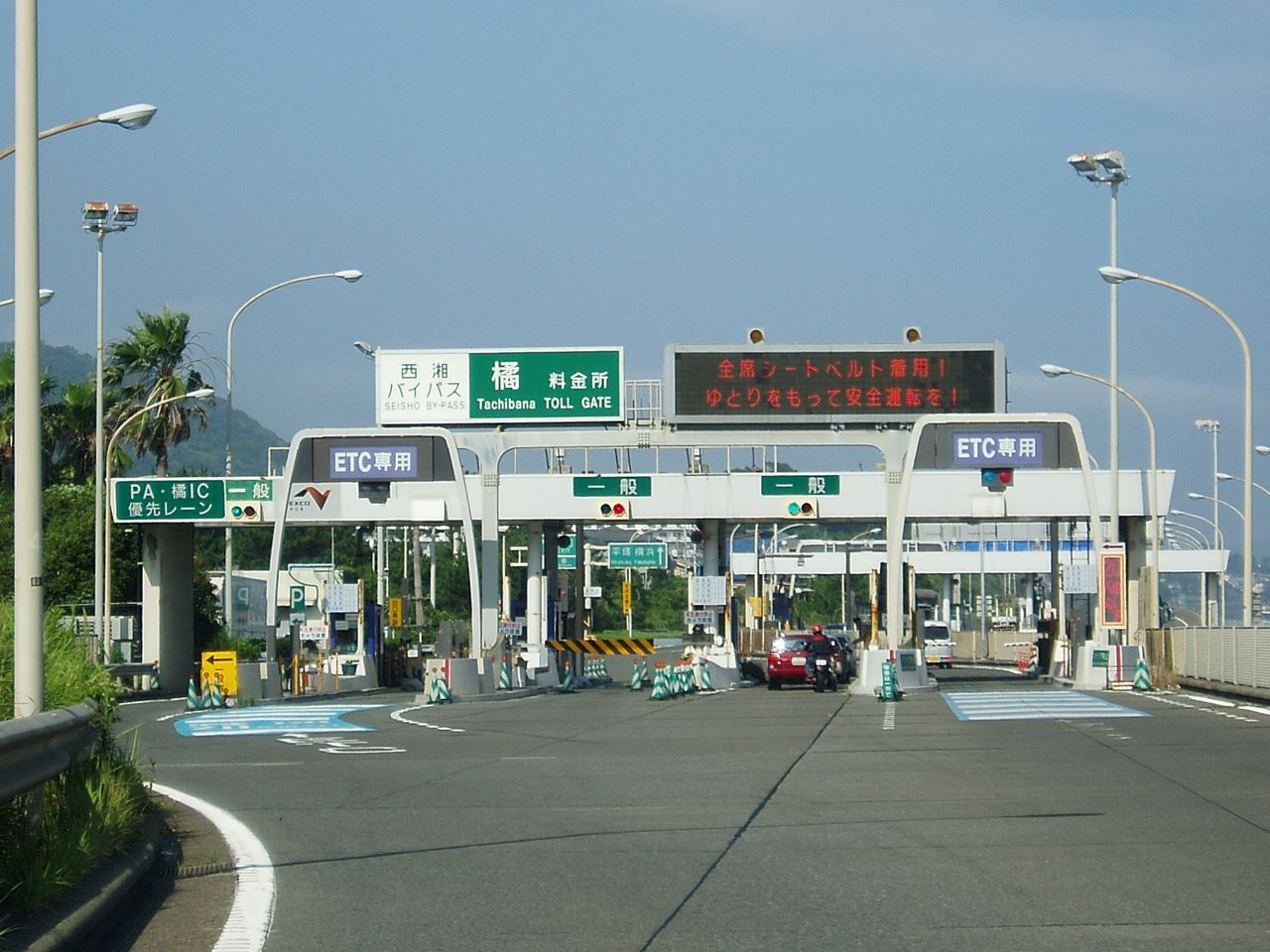 Tachibana Toll Gate, Route 1 "Seisho bypass" in Japan